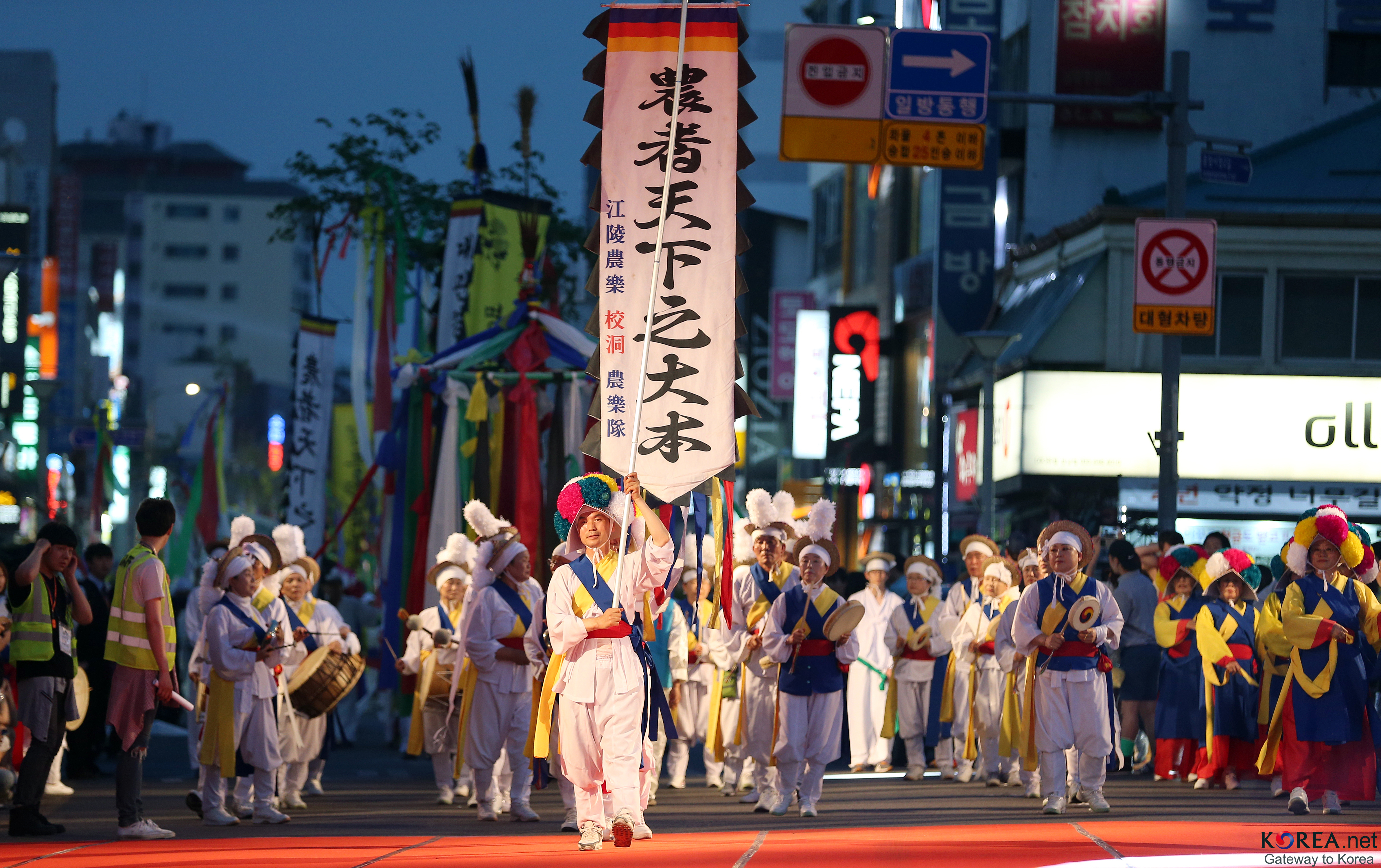 Exploring The UNESCO World Heritage in Korea 1st Program – ‘The Healing Festival Lasting 1,000 years’ Gangneung Danoje Festival & Jangneung(One of Royal Tombs of Joseon Dynasty) Gangneung Danoje Festival May 31, 2014 Gangneung-si, Gangwon-do Ministry of Culture, Sports and Tourism Korean Culture and Information Service ( Official Photographer: Jeon Han 유네스코 세계문화유산 등재 유•무형 한국문화유산 심층탐방 첫 번째 프로그램 - ‘천년을 이어온 힐링 축제’ 강릉단오제와 장릉 강릉단오제 2014-05-31 강원도 강릉시 문화체육관광부 해외문화홍보원 코리아넷 전한